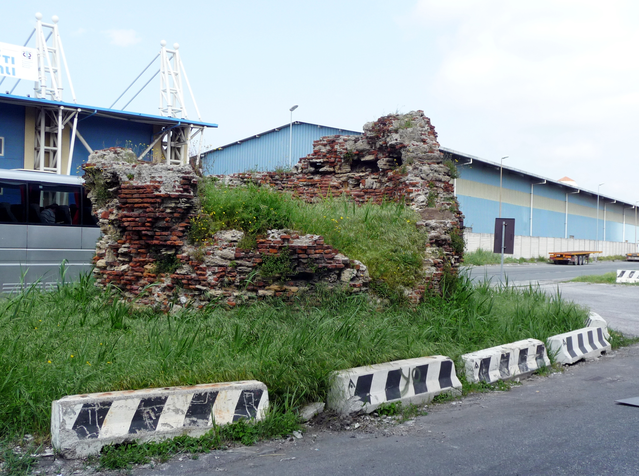 Torre Maltarchiata, Port of Livorno, Tuscany, Italy - Rests of coastal tower